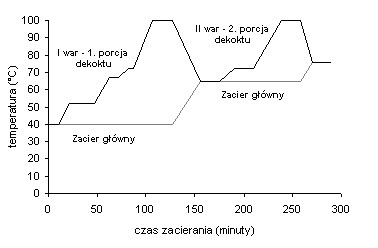 Two step decoction mashing